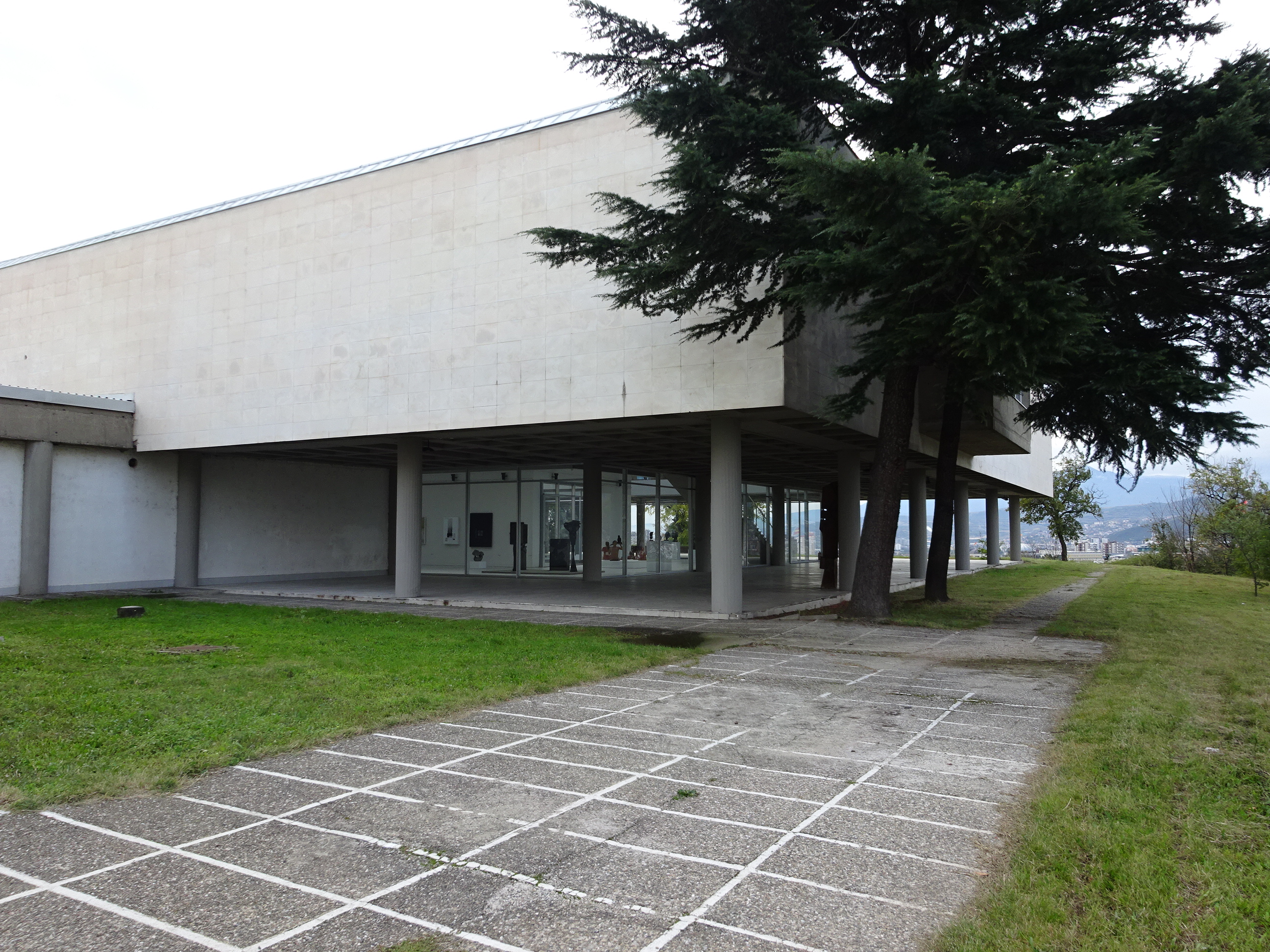 The Museum of Contemporary Art in Skopje-Macedon Ова е фотографија на споменик на културата во Македонија со типски код: B08This is a a photo of a cultural monument in North Macedonia with type id: B08